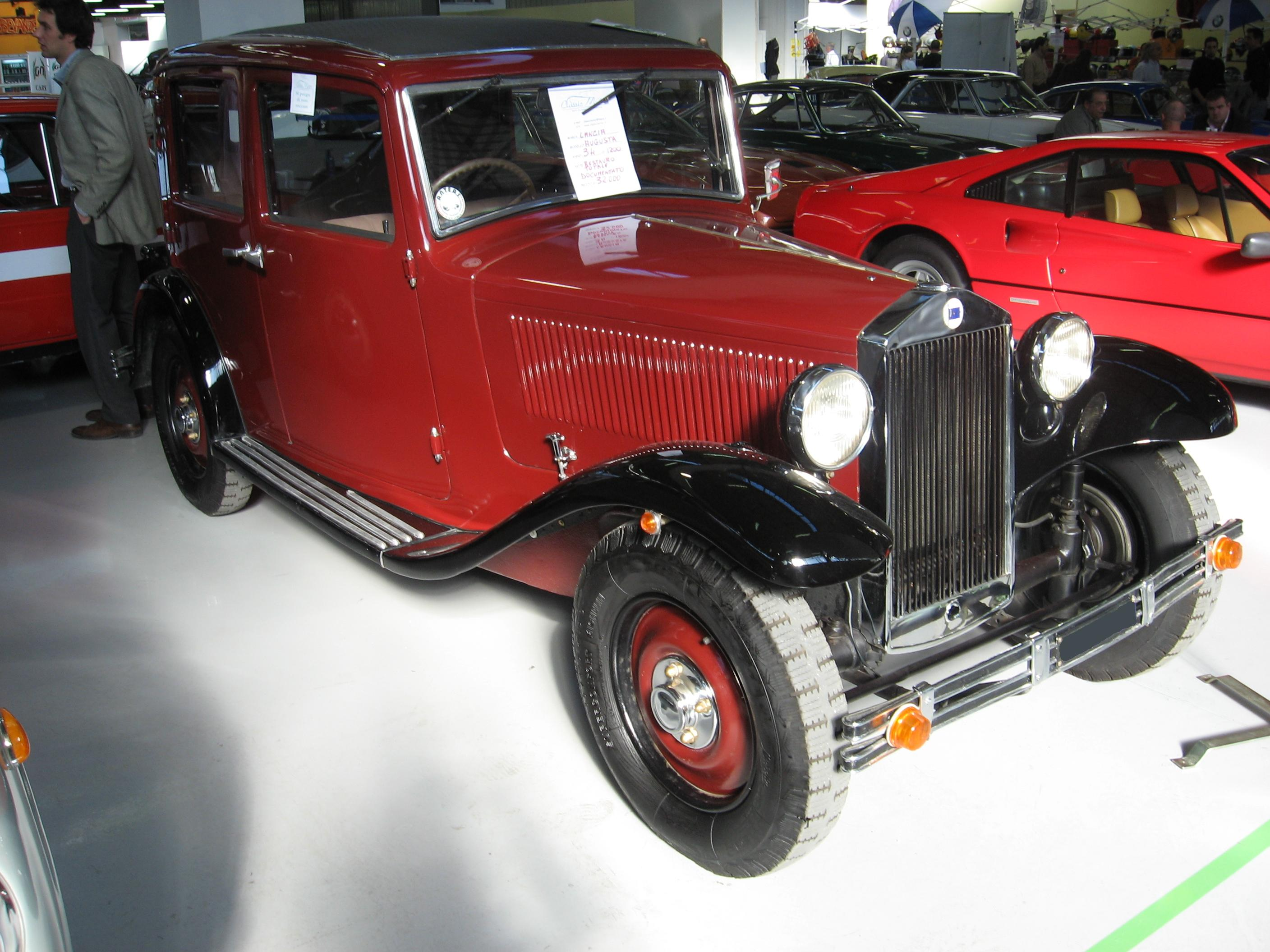 Lancia Augusta at Old Timer Show in Forlì (Italy)